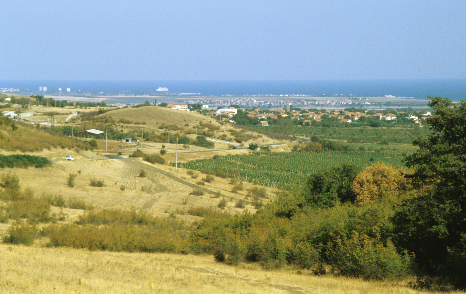 View over Burgas and Black Sea, Bulgaria